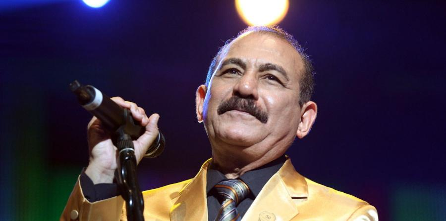 Charlie en vivo